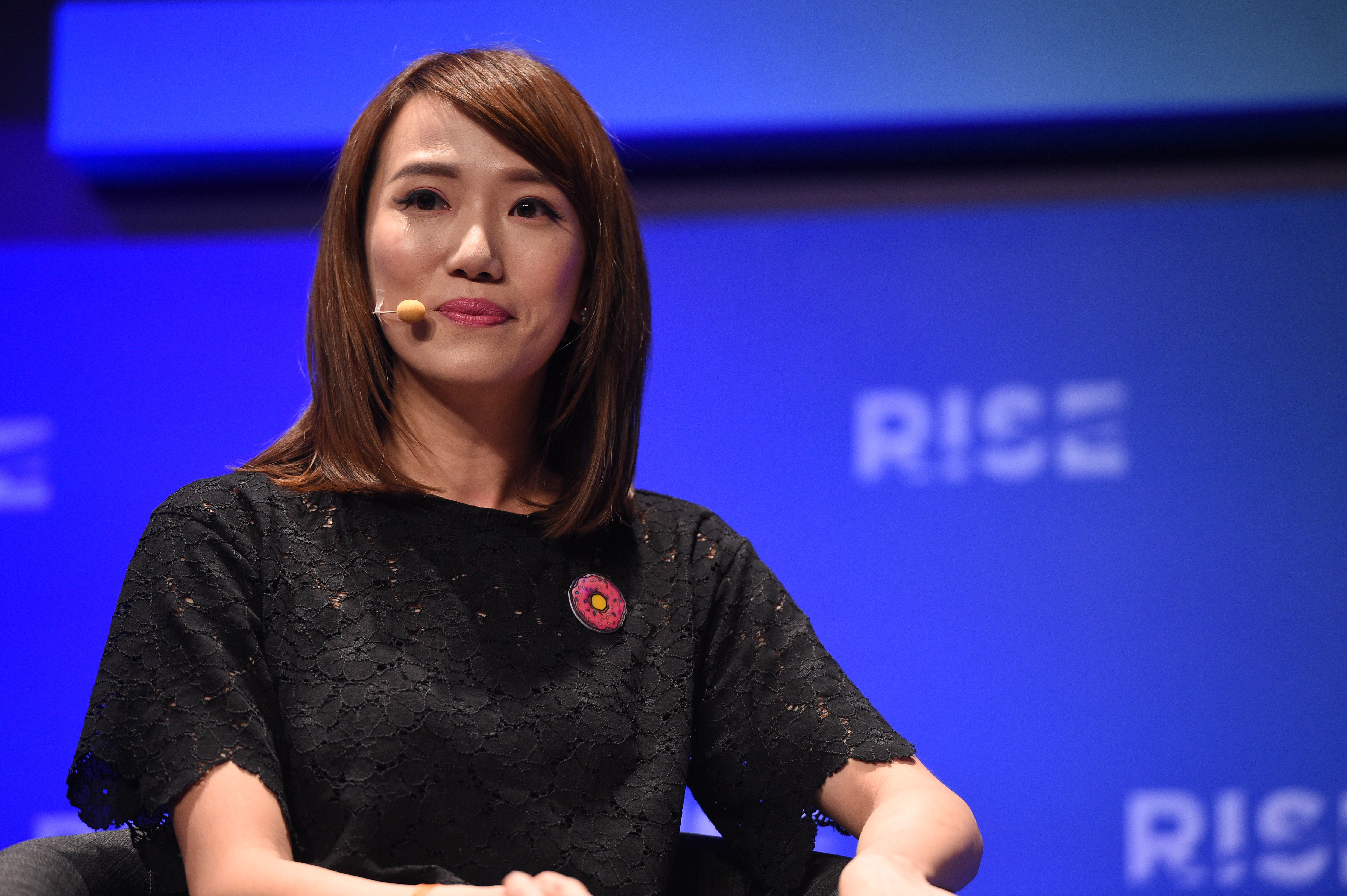 13 July 2017; Norma Chu, Founder, DayDayCook, on the Startup University stage during day three of RISE 2017 in Hong Kong. Photo by Cody Glenn / RISE / Sportsfile